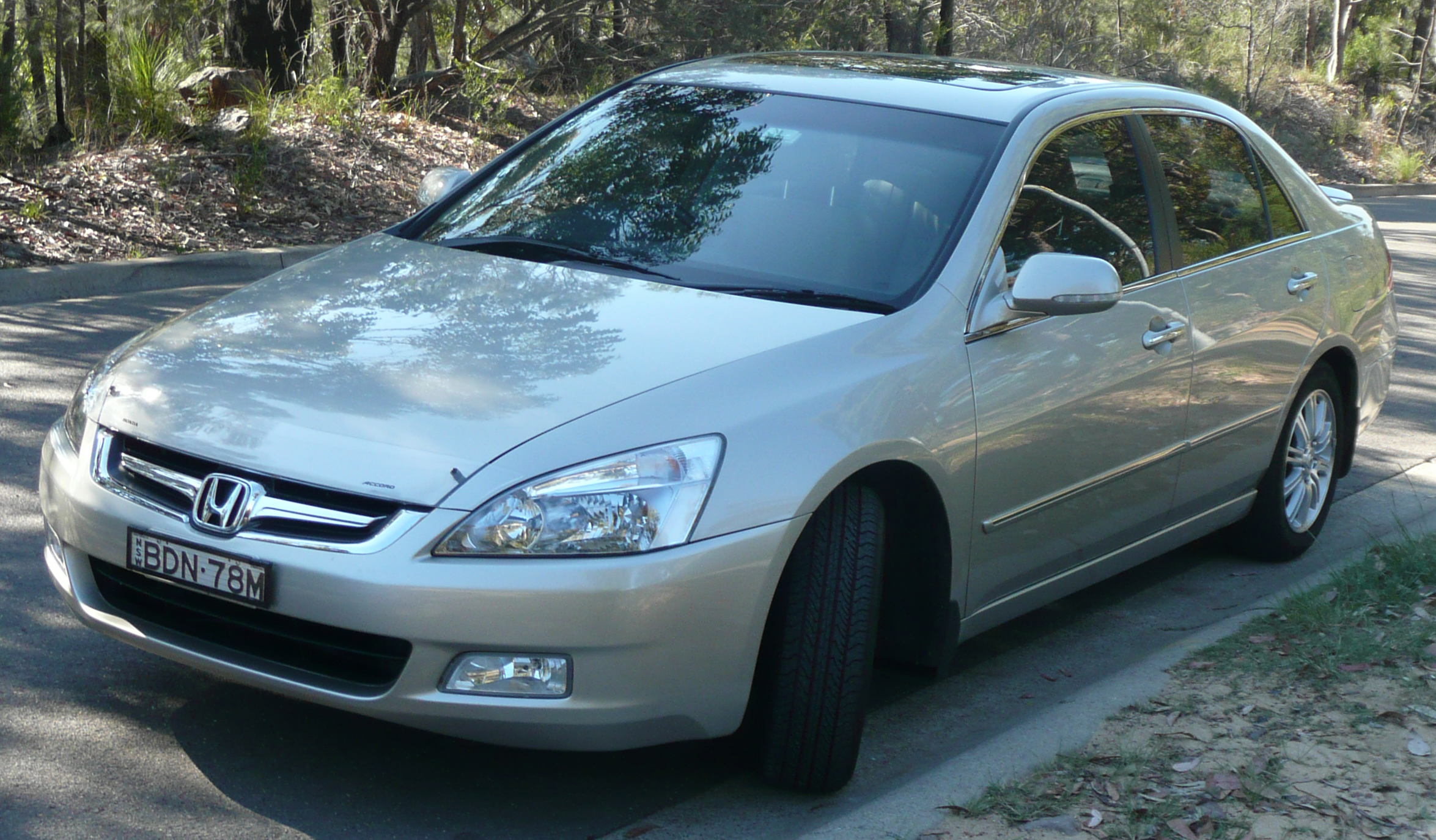 2006–2008 Honda Accord V6 sedan. Photographed in New South Wales, Australia.